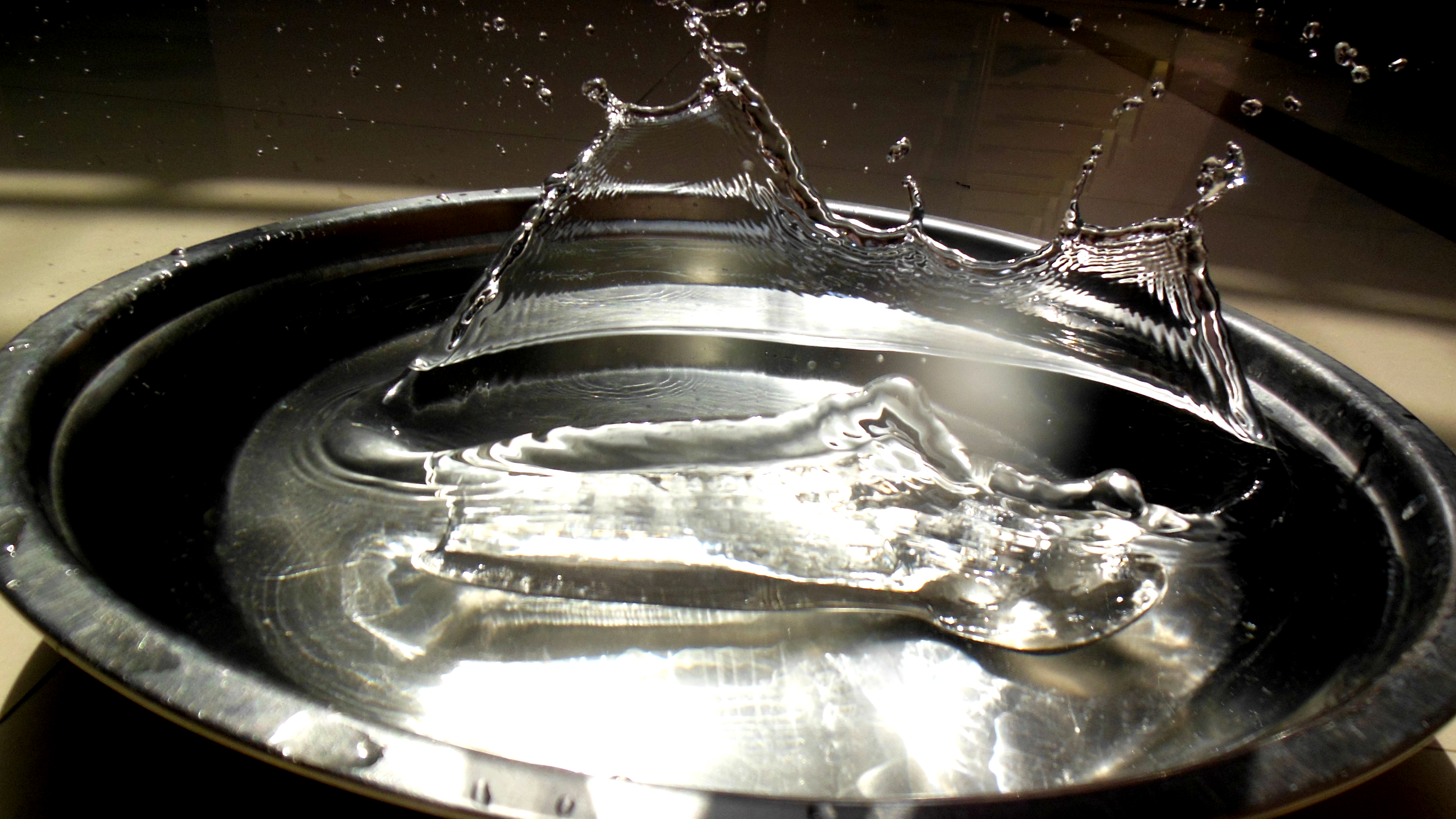 the splash when a spoon falls in a tray filled with water